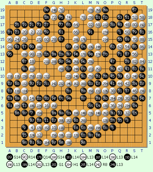 WeiQi, GO (game), igo 中文（台灣）: 2010-08-27 第35屆日本碁聖戰 五番挑戰賽第5局 坂井秀至(W) vs. 張栩(B) W+1.5